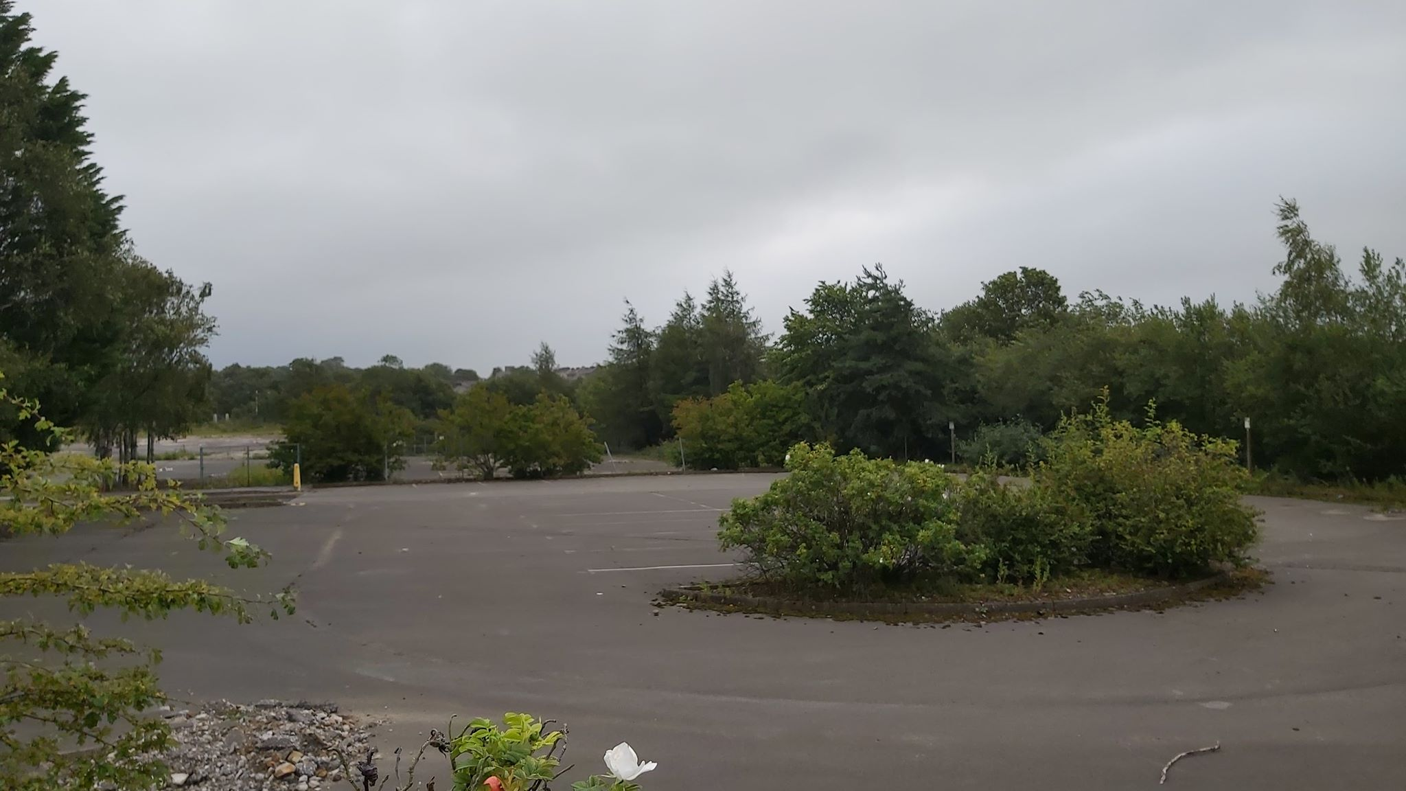 The site of Buxton Midland station, here is the coordinates to the former site Buxton SK17 6AQ. My own photograph, email me at for proof of ownership.